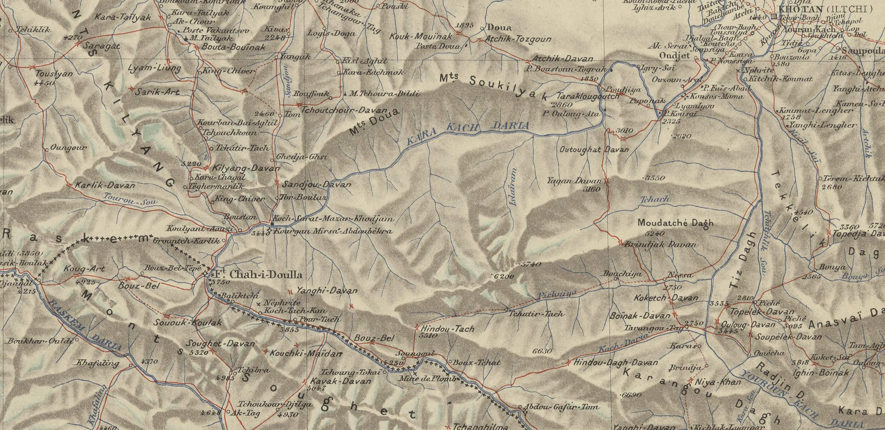 The map shows Shahidulla (spelt Chah-i-Doulla) on the Karakash river, with Khotan to the northeast and the Raskam (Yarkand river) to the south. French Army map from 1906. Extracted from File:Kachgar from Asie 1 to 1,000,000. flle 40N-78E.jpg